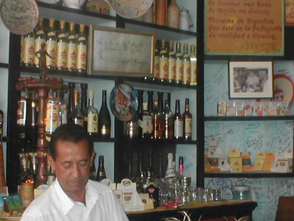 Photographer David Shankbone. In 2002 this was the bartender of the famous Havana bar where Ernest Hemingway often held court, "La Bodeguita del Medio." You can see a plate with his image in the background. What you can't see is his signature above the plate where he mentions the bar's mojitos. October 2002.